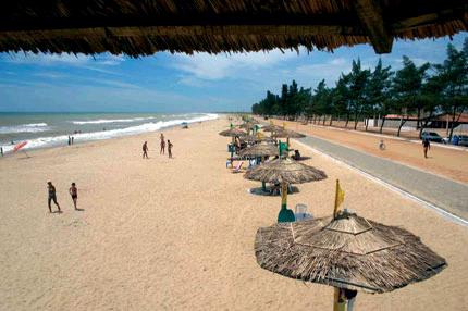 snow beach